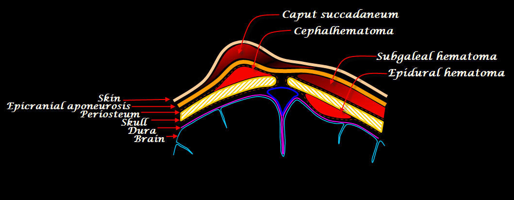 Diagram of the infant scalp showing the locations of the common hematomata of the scalp in relation the layers of the scalp. Newborn Scalp Hematomata